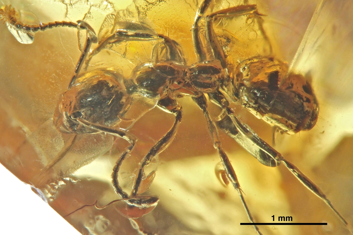 Dorsal view of a Dolichoderus longipilosus worker. Middle Eocene; Baltic amber, Samland Peninsula, Kalingrad, Russia Naturmuseum Senckenberg, Frankfurt, Darmstadt, Hesse, Germany; Specimen SMFBE1216